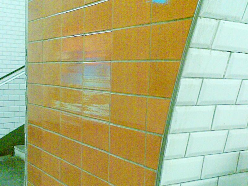 Train hall of Paris Métro with tiling in Andreu-Motte style.